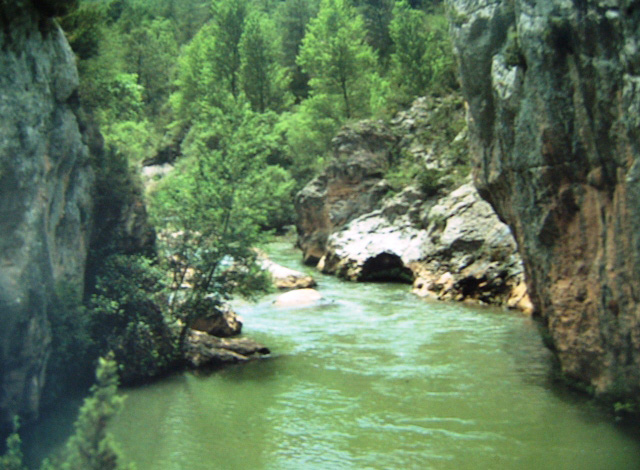 Canyon in the High Tagus